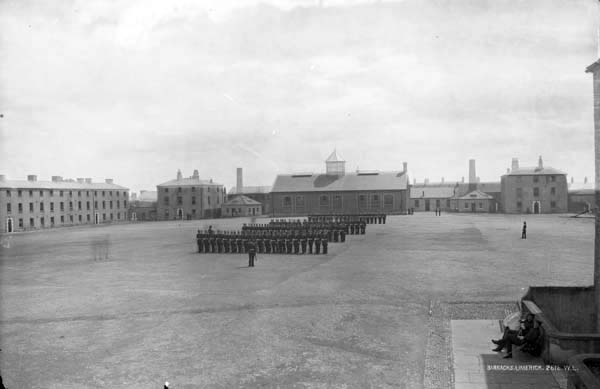 Photograph taken between ca. 1880 and 1914. Format: glass negative Part of: National Library of Ireland Lawrence Collection. For more photographs in this collection see National Library of Ireland catalogue: Reference number: L_CAB_02676